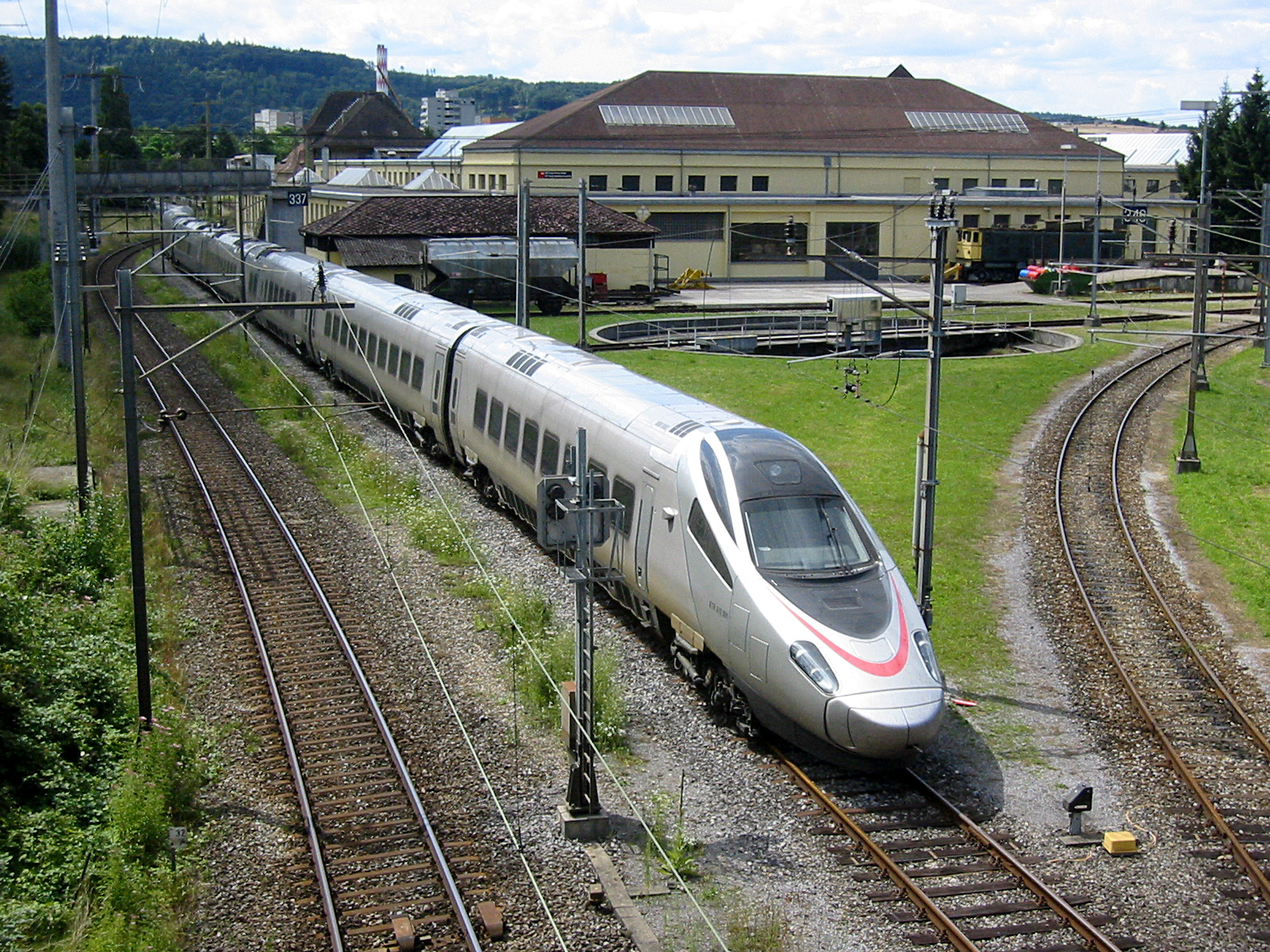 ETR 610.001 in the triangular junction at the SBB railway depot Biel, Switzerland